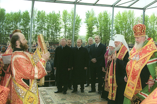 PROKHOROVKA, BELGOROD REGION. Vladimir Putin with presidents Leonid Kuchma of Ukraine and Alexander Lukashenko of Belarus (to the right in the centre) at Sts. Peter and Paul's Church in Prokhorovka Field, where the Patriarch of Moscow and All Russia Alexy II celebrated Easter liturgy.